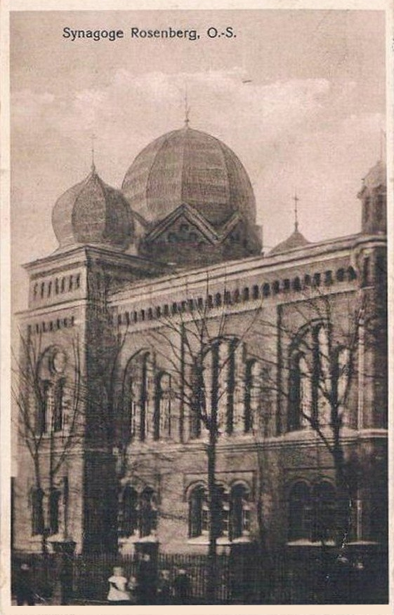 Synagogue of Rosenberg (now Olesno in Poland), built in 1889 and destroyed during Kristal Nacht in 1938.